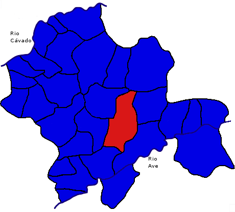 Map of Fontarcada in Povoa de Lanhoso, Portugal